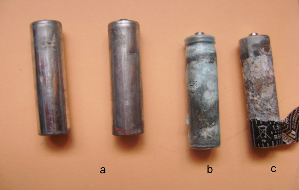 Corrosion states of a zinc-carbon battery